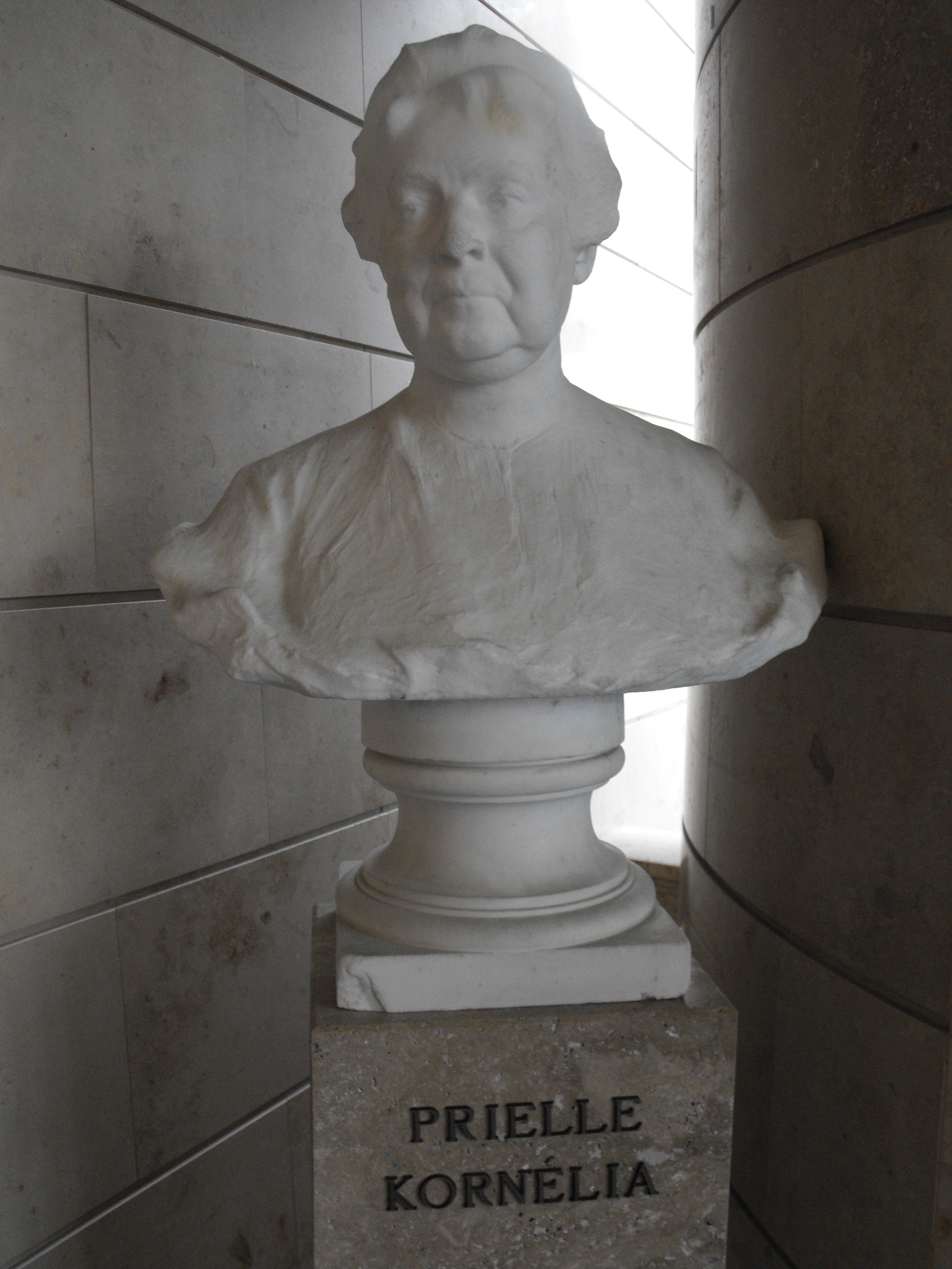 Statue of Kornélia Prielle, Hungarian actress in the National Theatre, Budapest, Hungary.